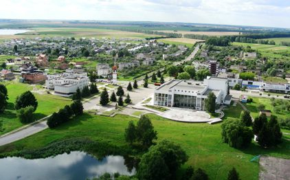 Myshkovichi airview